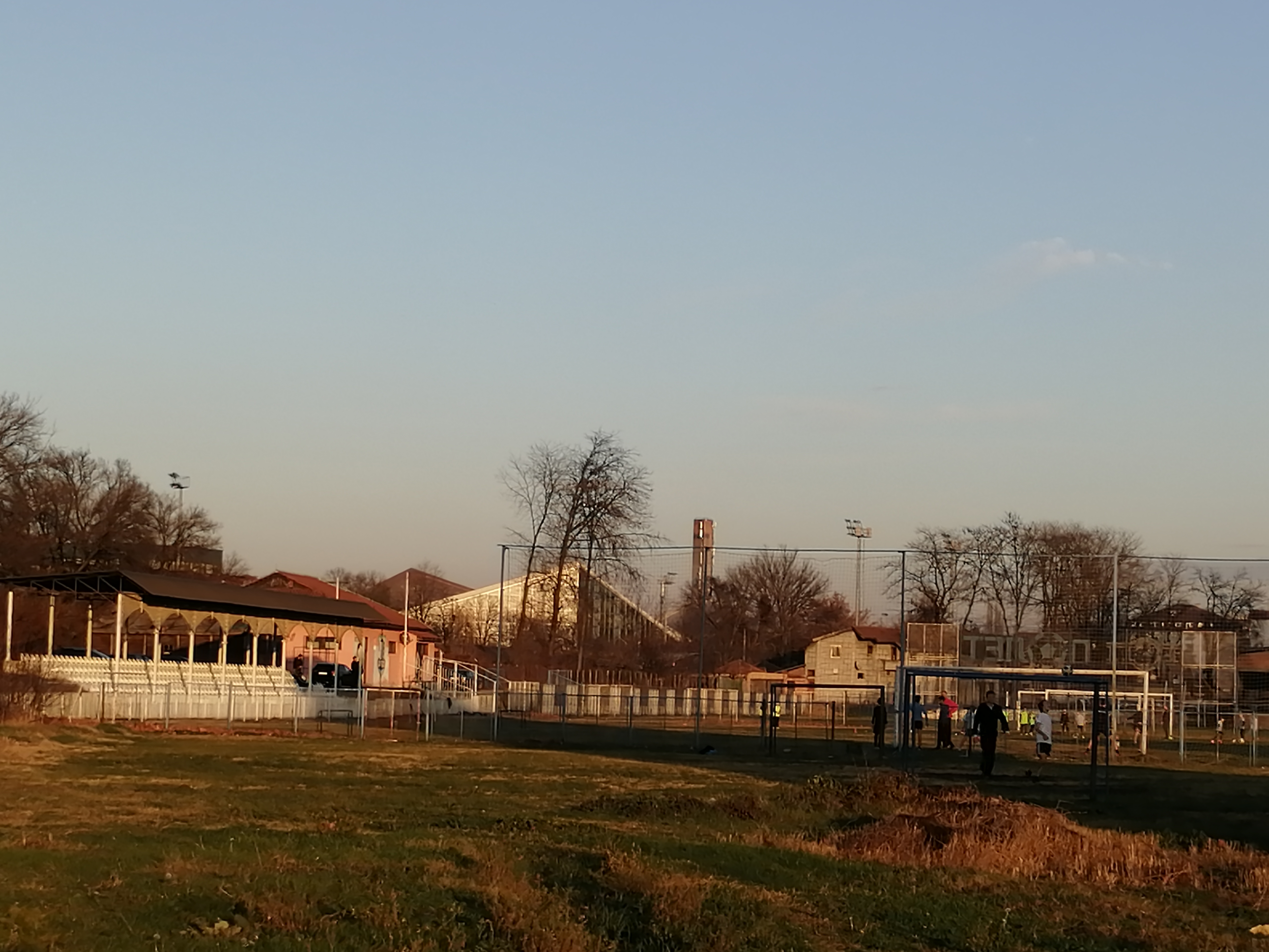 Stadium FK Dorćol in Belgrade